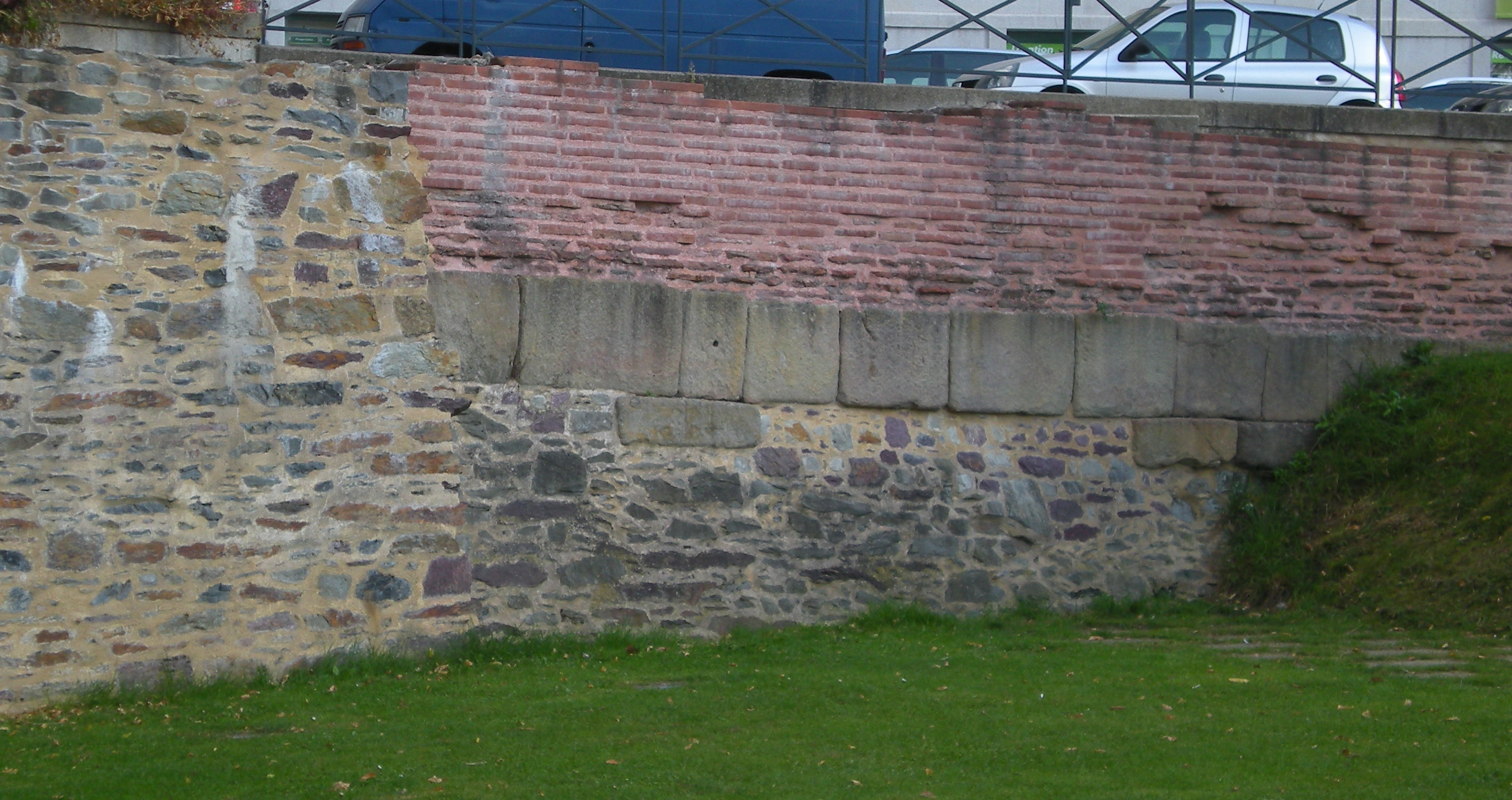 3rd century city wall of Condate (now Rennes)